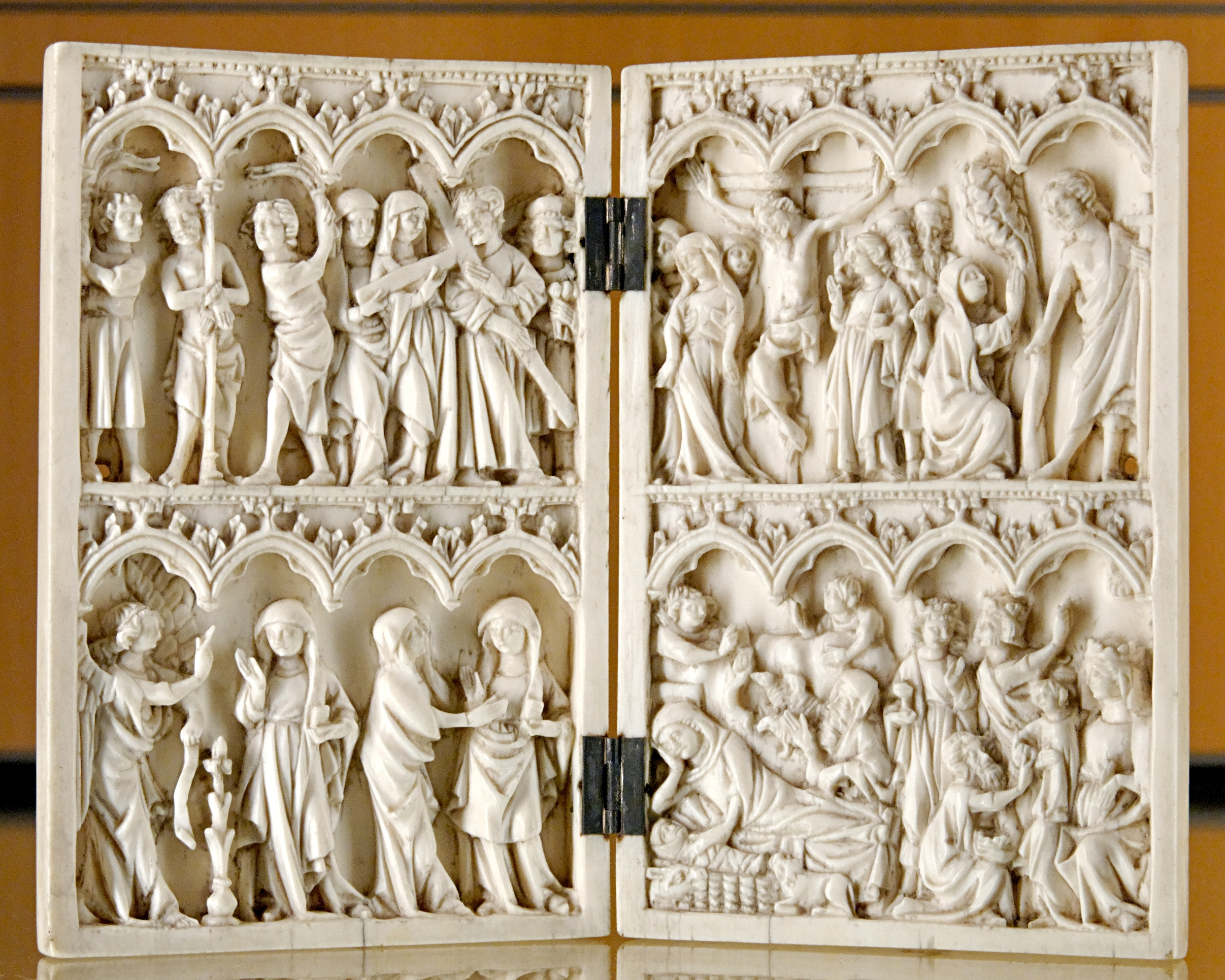 Diptych with scenes from the life of Christ. Ivory, made in Paris, ca. 1380–1390.